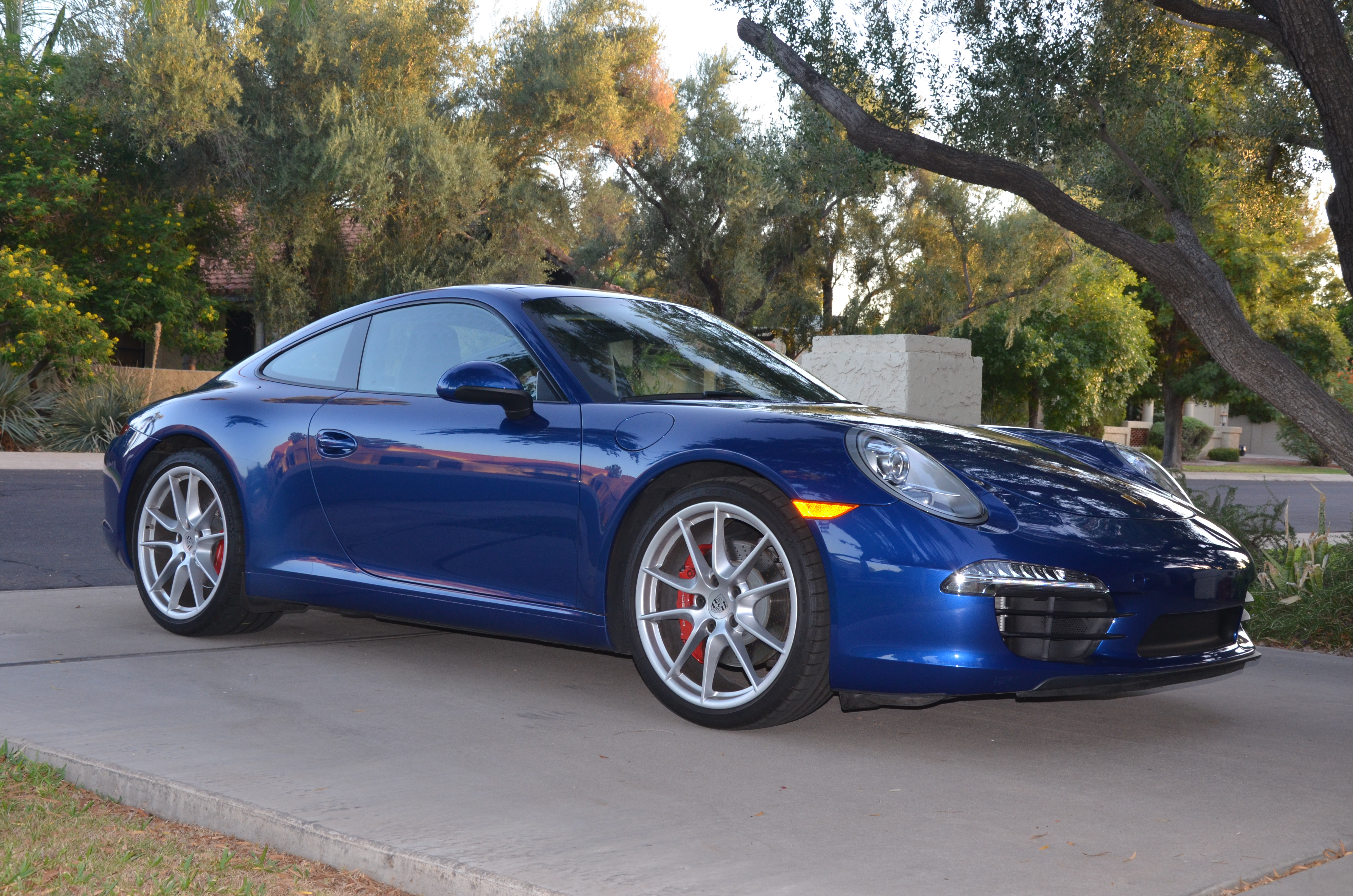 This is a 2012_Porsche 911 Carrera S, type 991